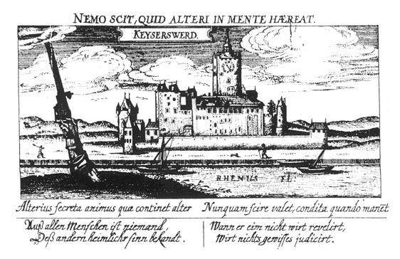 Kaiserpfalz in Kaiserswerth c. 1630, old drawing